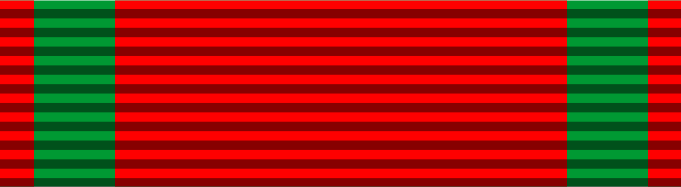 Order_of_the_Medjidie_ribbon